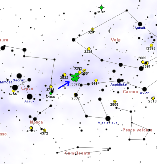 Carina Nebula